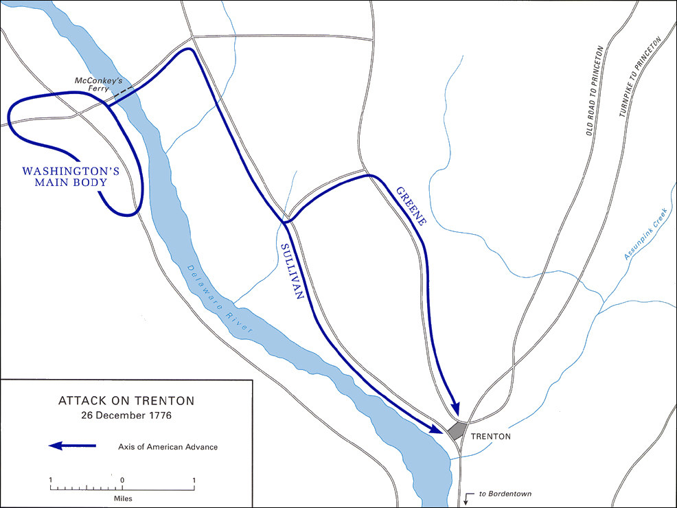 The plan of attack under Washington. General John Sullivan was to advance from the south, and cut off the Hessian escape, while Greene was to surround the other side of the Hessians. From by Richard W. Stewart.